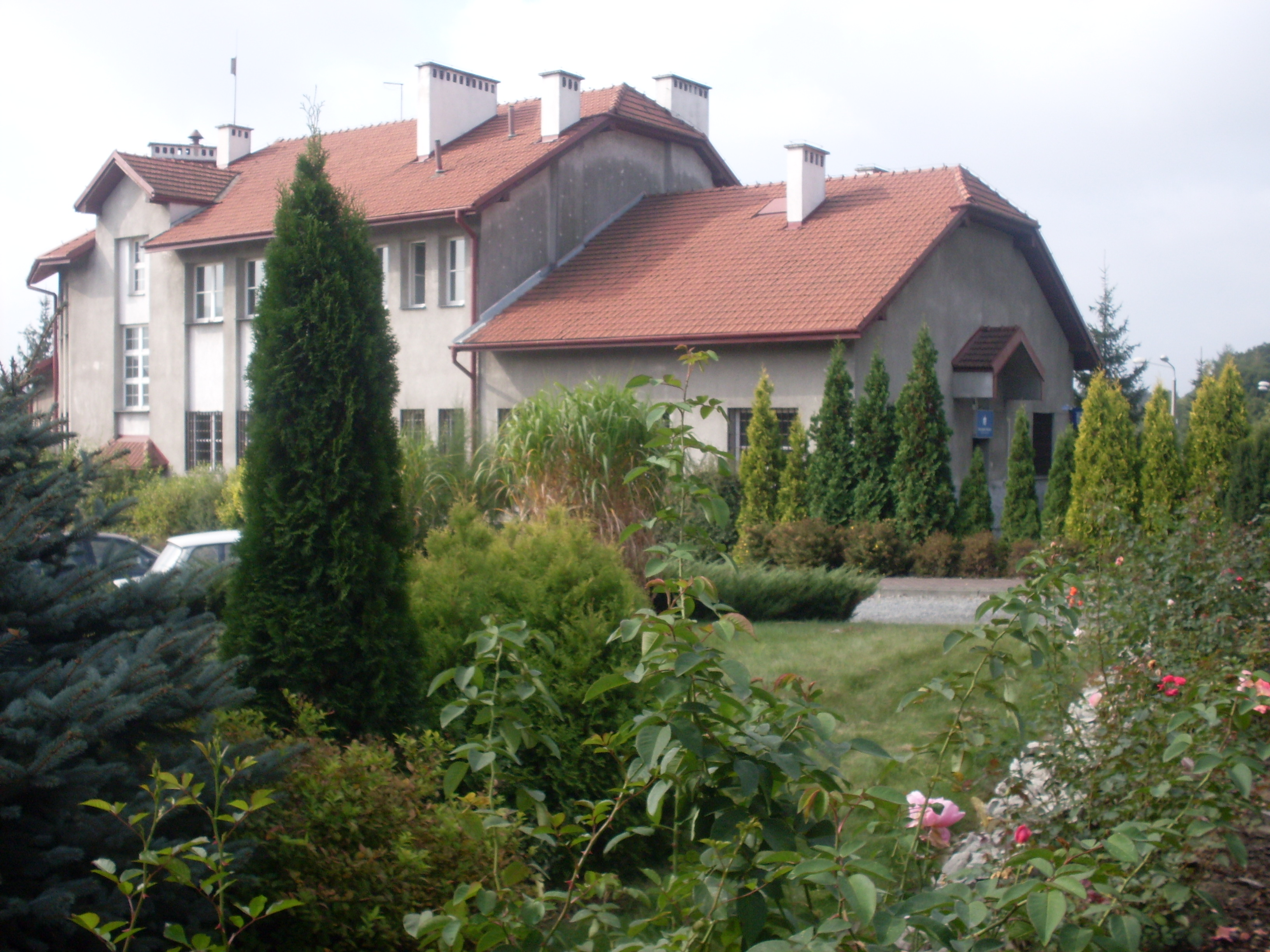 Bank PKO BP Krzeszowice (Est/od str. wschodniej)